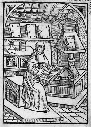 Holzschnitt aus: Macer Floridus. De viribus herbarum carmen. Famosissimus medicus et medicorum Speculum, Genf, Jean Belot, nach 1500